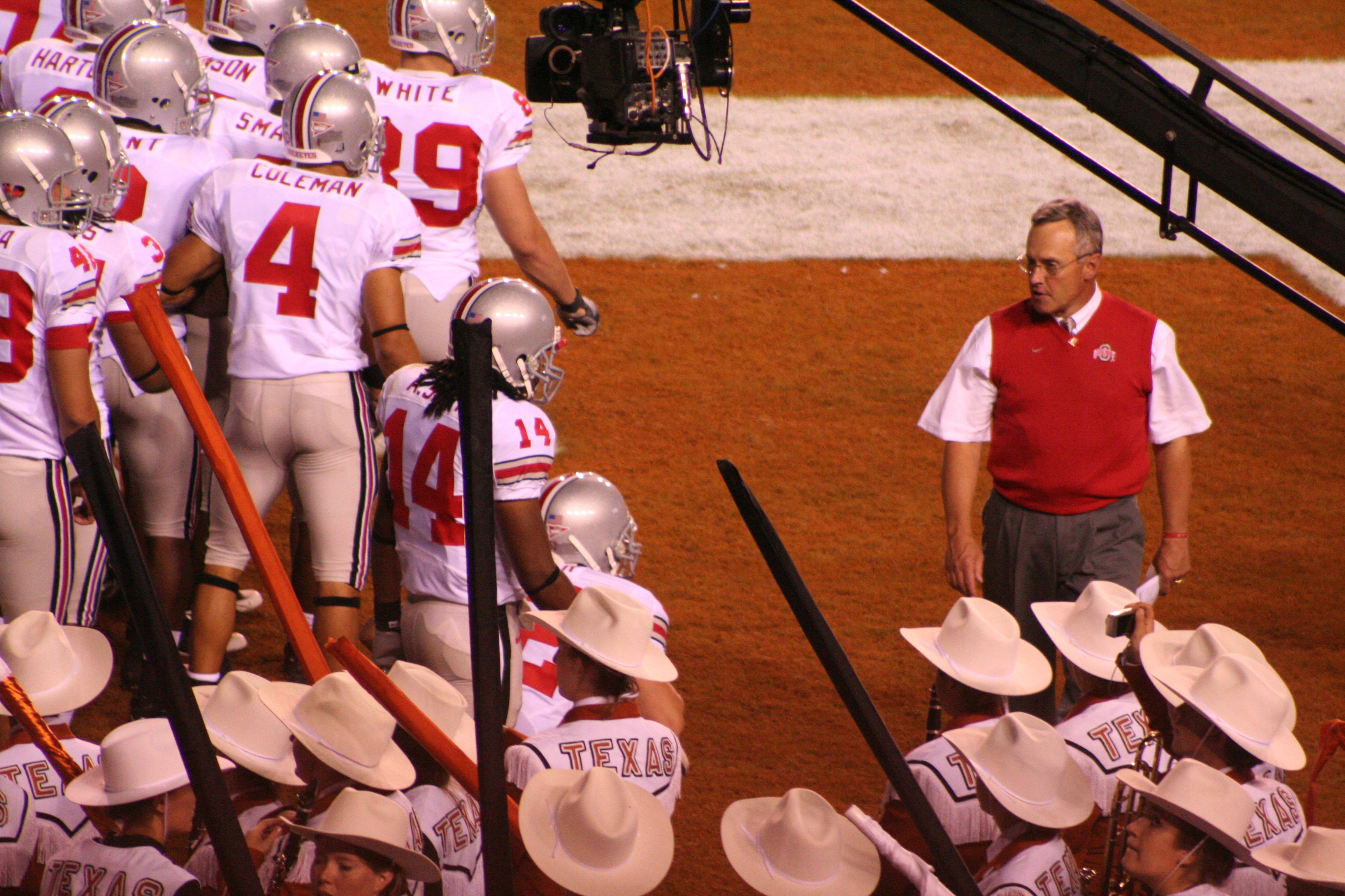 Jim Tressel - college football game at Darrel K. Royal Texas Memorial Stadium - Ohio State University Buckeyes vs the University of Texas at Austin Longhorns on 2 September2006.